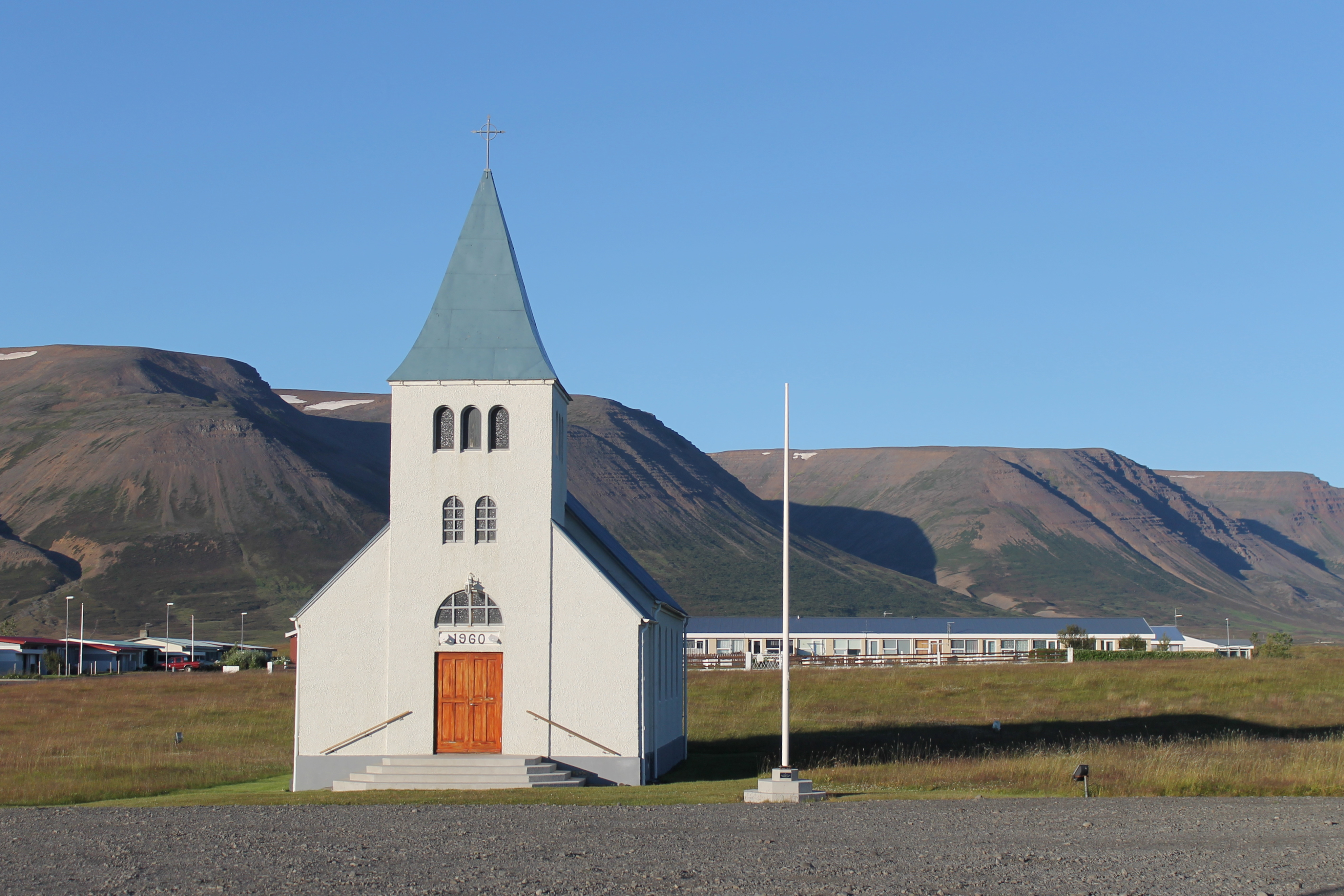 Hofsós church, Skagafjörður, Northern Iceland.